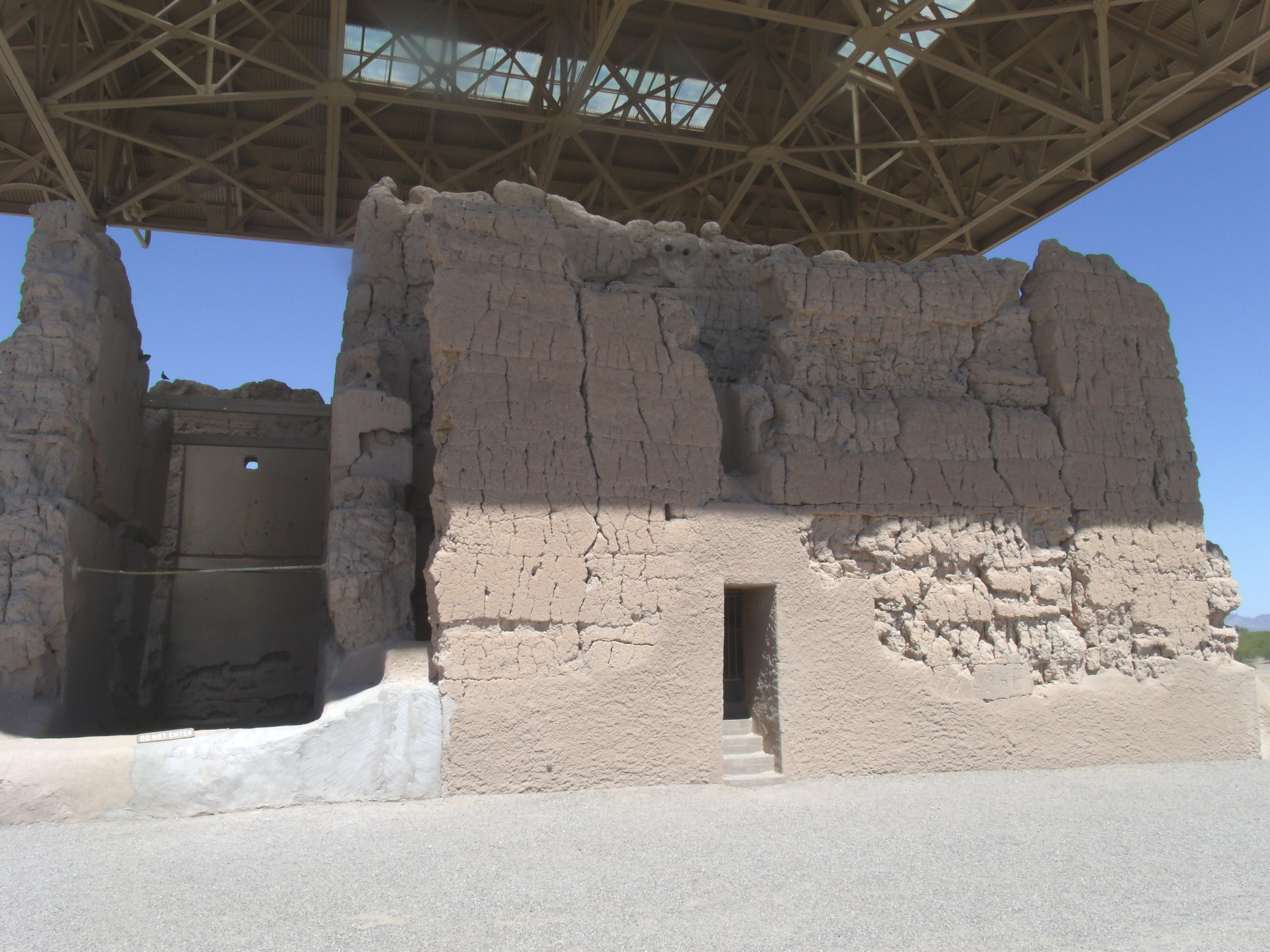 Different view of the Casa Grande Ruins National Monument located at Ruins Drive in Coolidge. Listed in the National Register of Historic Places in 1966, and reference #66000192.